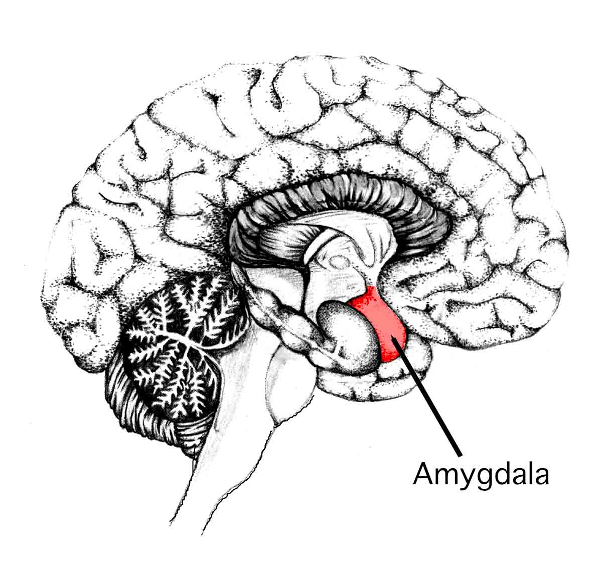 The amygdala is the neurological 'hub' of human emotion